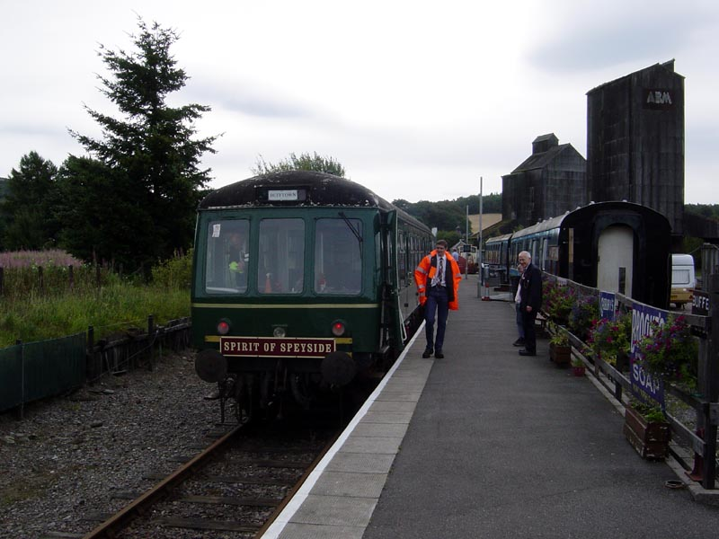 Class 108 diesel multiple unit "Spirit of Speyside" at Keith and Dufftown Railway Image taken by myself, August 2004.